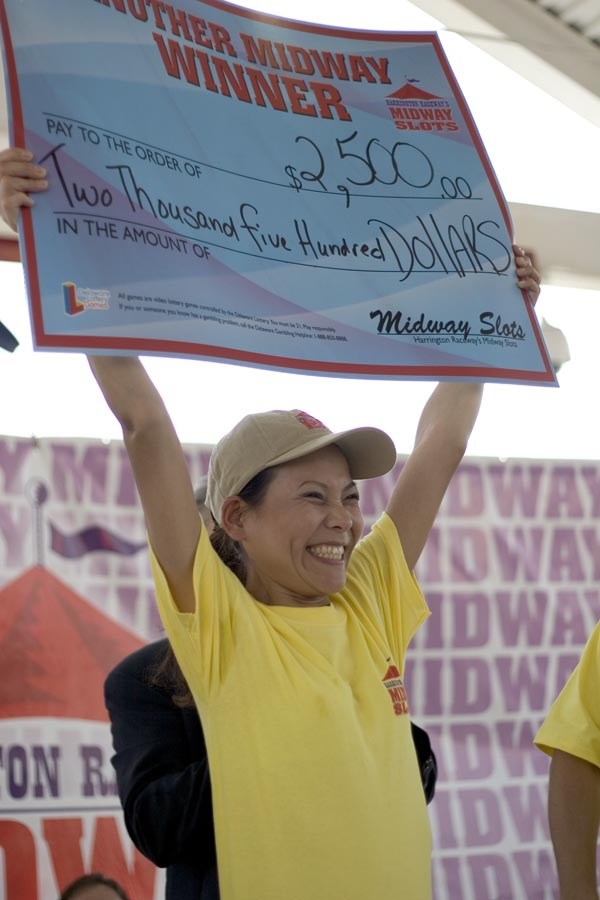 Sonja Thomas at the Midway Slots - Crabcake Eating Competition!